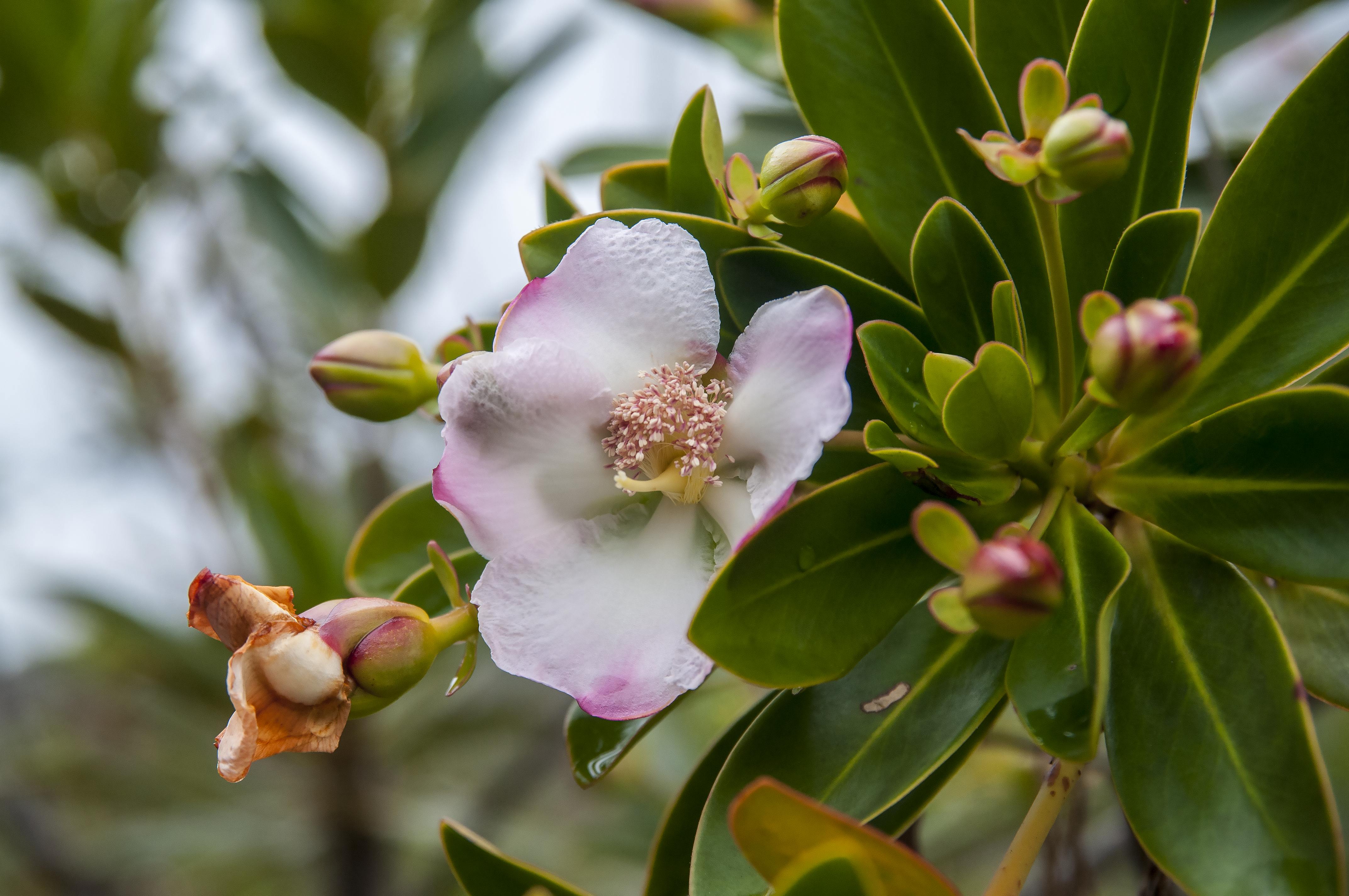 Bonnetia stricta?